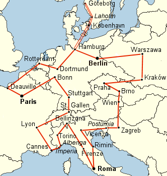 Circuit of Europe during the International Touring Aircraft Contest in 1932 (Challenge International de Tourisme 1932)